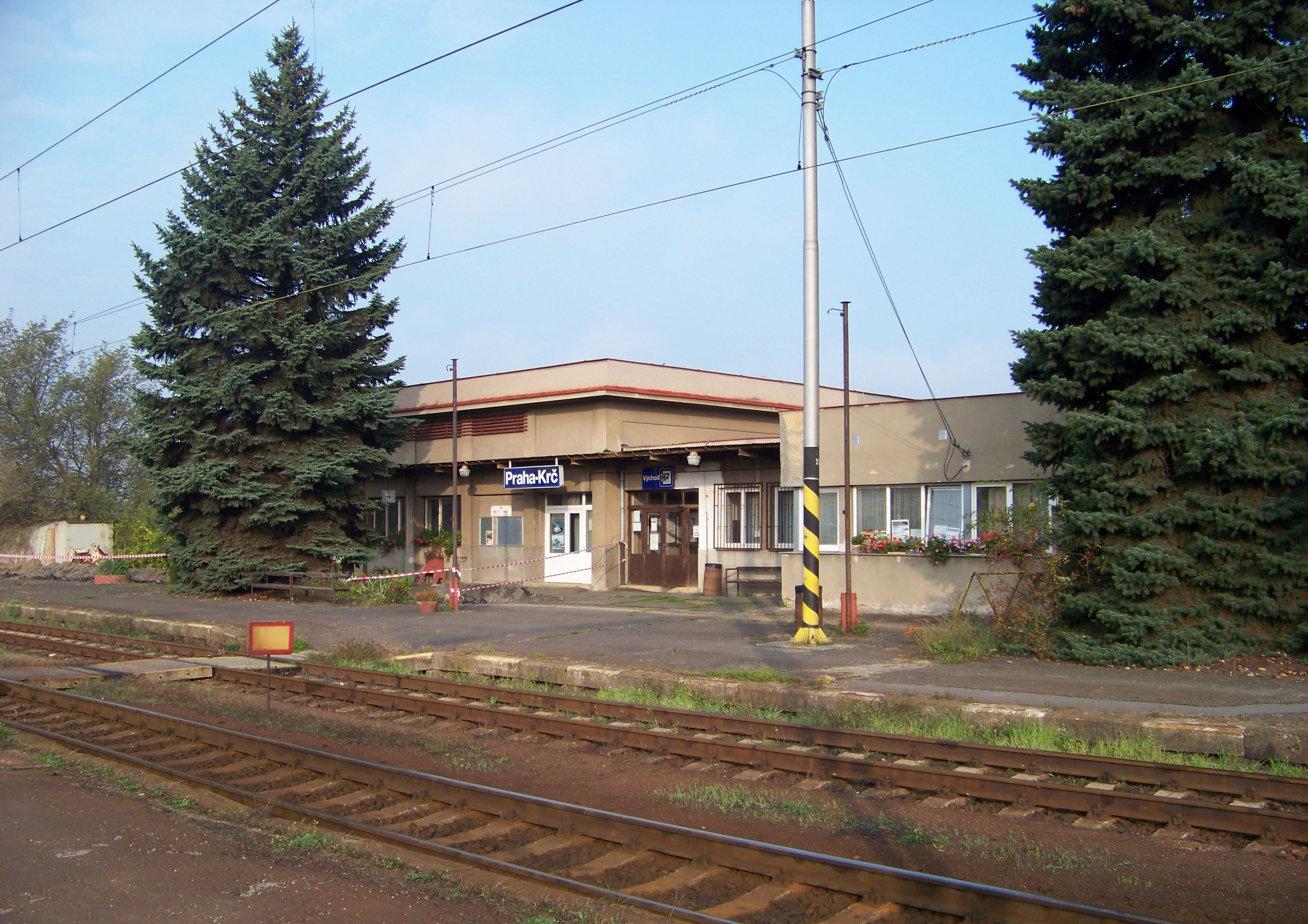 Prague-Krč, Czech Republic. Train station Praha-Krč.